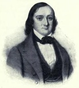 Belgian composer François Prume. After a lithography by J. Cardon. Image from Nils Personne: Svenska Teatern VIII (1927).